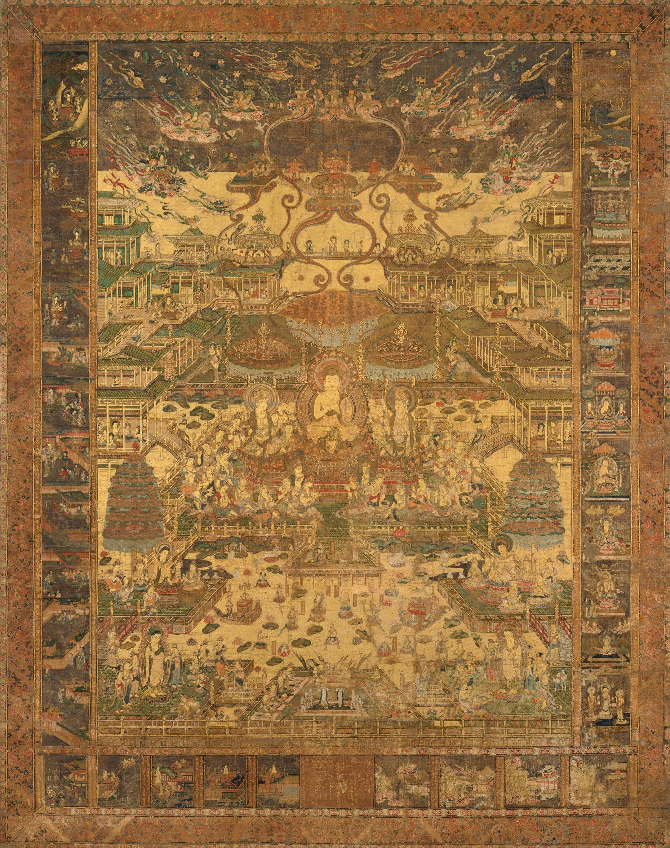 Taima Mandala, Kamakura period, 14th century, Japan, hanging scroll; ink, color, and gold on silk, image: 36 1/8 x 28 5/8 in. (91.8 x 72.7 cm), Metropolitan Museum of Art, accession 57.156.6